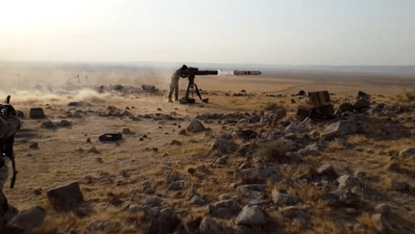 Caucus Emirate, an Al Qaeda affiliate, fires a BGM TOW anti-tank missile